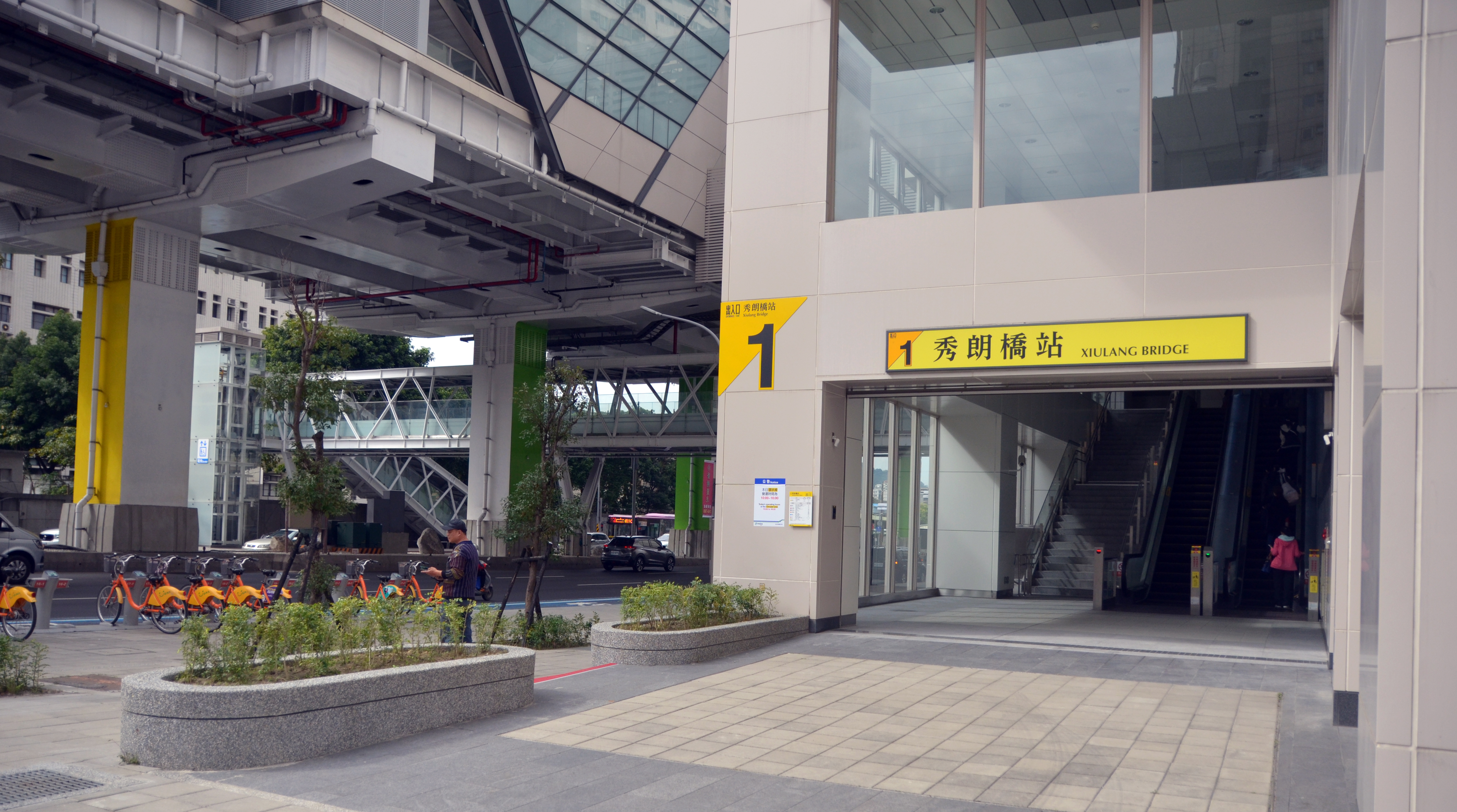 Exit 1, Xiulang Bridge Station, Taipei Metro Circular Line.